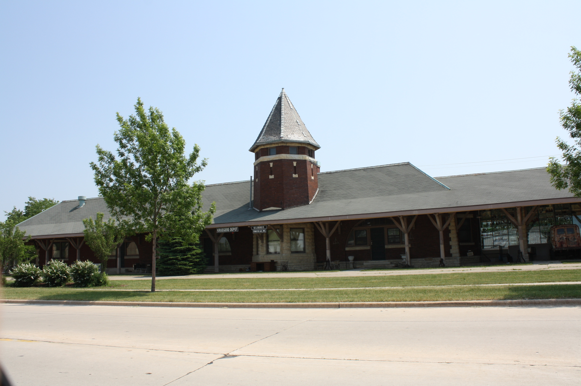 The Chicago and Northwestern Railroad Depot (Fond du Lac, Wisconsin) in Fond du Lac, Wisconsin, listed on the National Register of Historic Places.